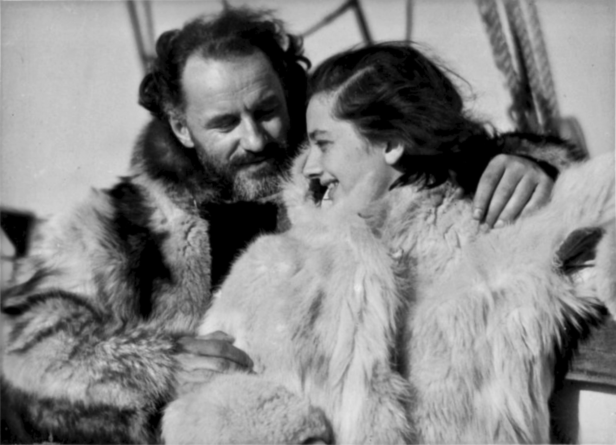 German film maker Arnold Fanck (1889–1974) with his secretary and lover Elisabeth Kind (* 1908) during the Universal-Dr. Fanck Grönlandexpedition 1932 for his movie S.O.S. Eisberg. In 1934 both married in Berlin. In 1935 Fanck's second son Hans-Joachim was born.